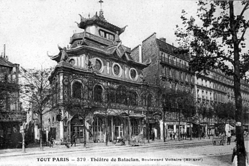 Post card of theBataclan theater around 1900.